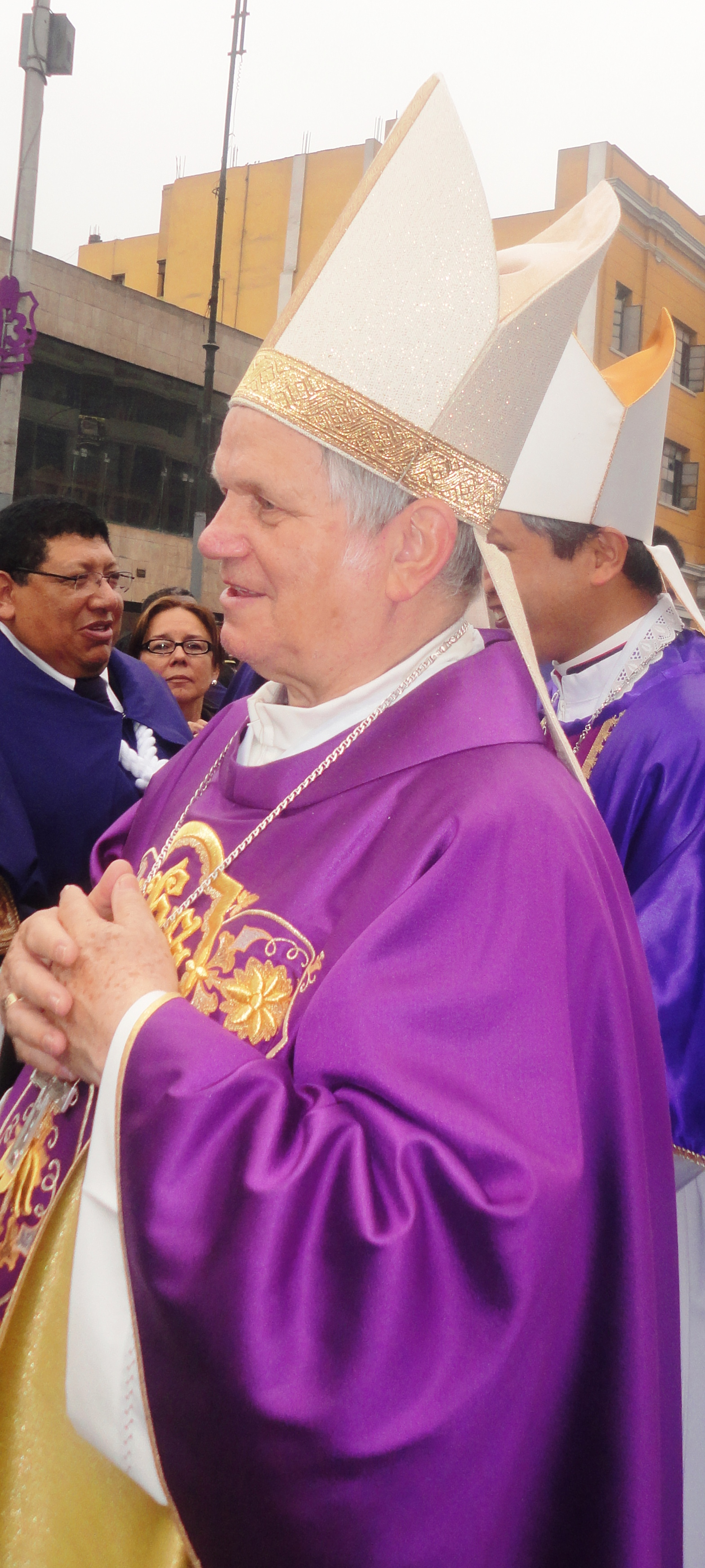 Bishop Mons. Adriano Tomasi, mass before Lord of Miracles Procession. Lima, 2011.